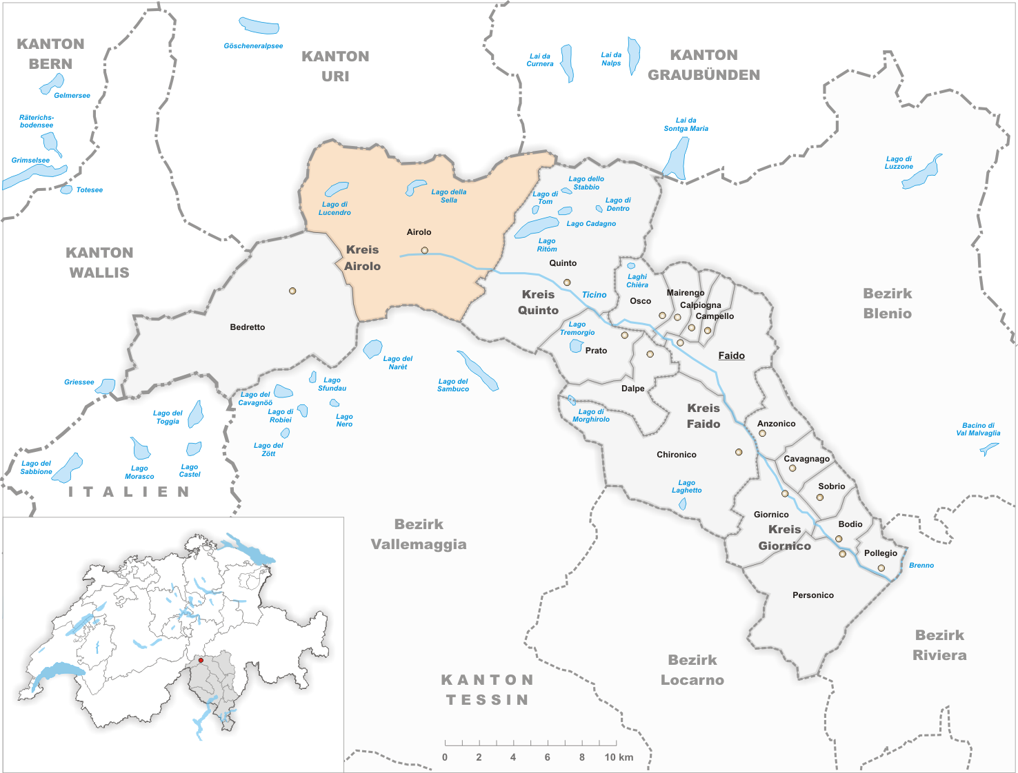 Municipality Airolo